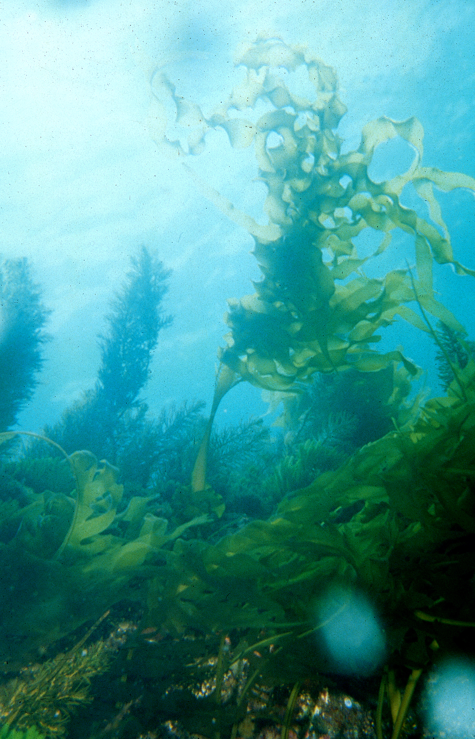 Undaria pinnatifida is a brown seaweed that reaches an overall length of 1-3 m. Undaria is a native of the Japan Sea and the northwest Pacific coasts of Japan and Korea. In Japan, Undaria, known locally as 'wakame', is extensively cultivated as a food plant. Japanese consumption of the alga is around 200,000 tonnes of fresh or dried plant per annum. Undaria is regarded as a pest because it is highly invasive, grows rapidly and has the potential to overgrow and exclude native seaweeds. It was first detected in Australia in 1988 near Triabunna on the east coast of Tasmania. Over the following ten years it spread along 100 kms of the Tasmanian east coast and also to Victoria - the most likely vector being international shipping.